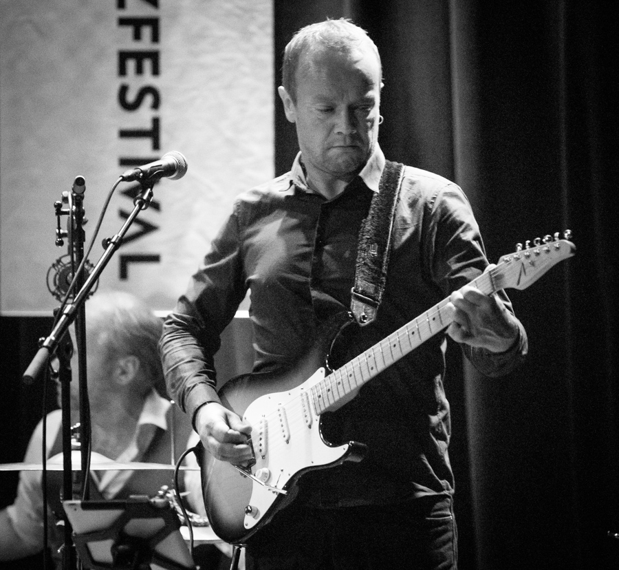 Børge Petersen-Øverleir in concert with Rebekka Bakken at Victoria Teater. The concert was part of Oslo Jazzfestival and took place on 19. August 2017 in Oslo. Lineup: Rebekka Bakken (vocal), Børge Petersen-Øverleir (guitar), Jonny Sjo (bass guitar) and Rune Arnesen (drums).